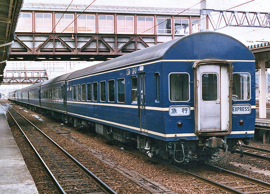 A 20 series NaHaNeFu 23 sleeping car at the rear of an Amanogawa express service at Akita Station